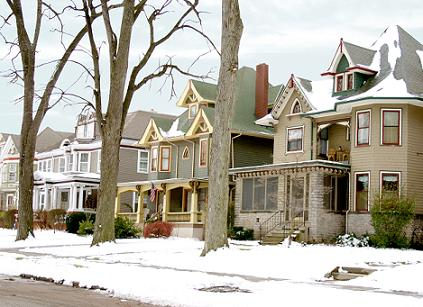 Houses on Robinwood in the Old West End Toledo, Ohio